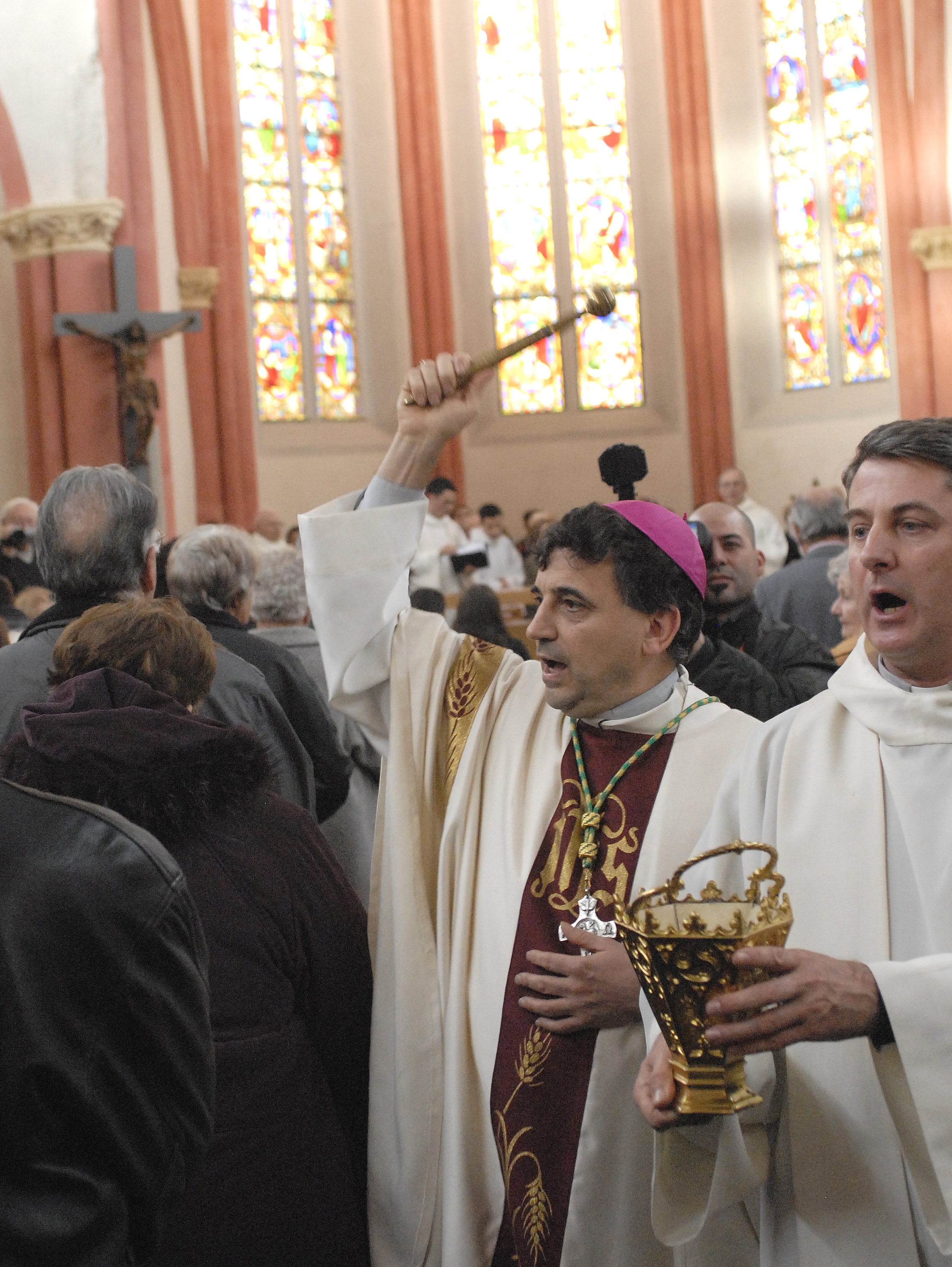 dédicace